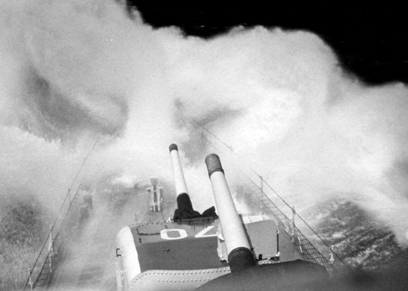 View of the bow of the German Fletcher-class destroyer Zerstörer 1 (D 170) in heavy seas, in 1965.